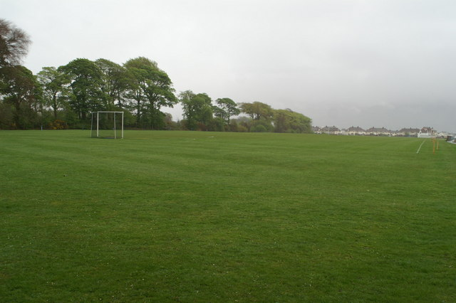 Shinty pitch beside Loch Linnhe